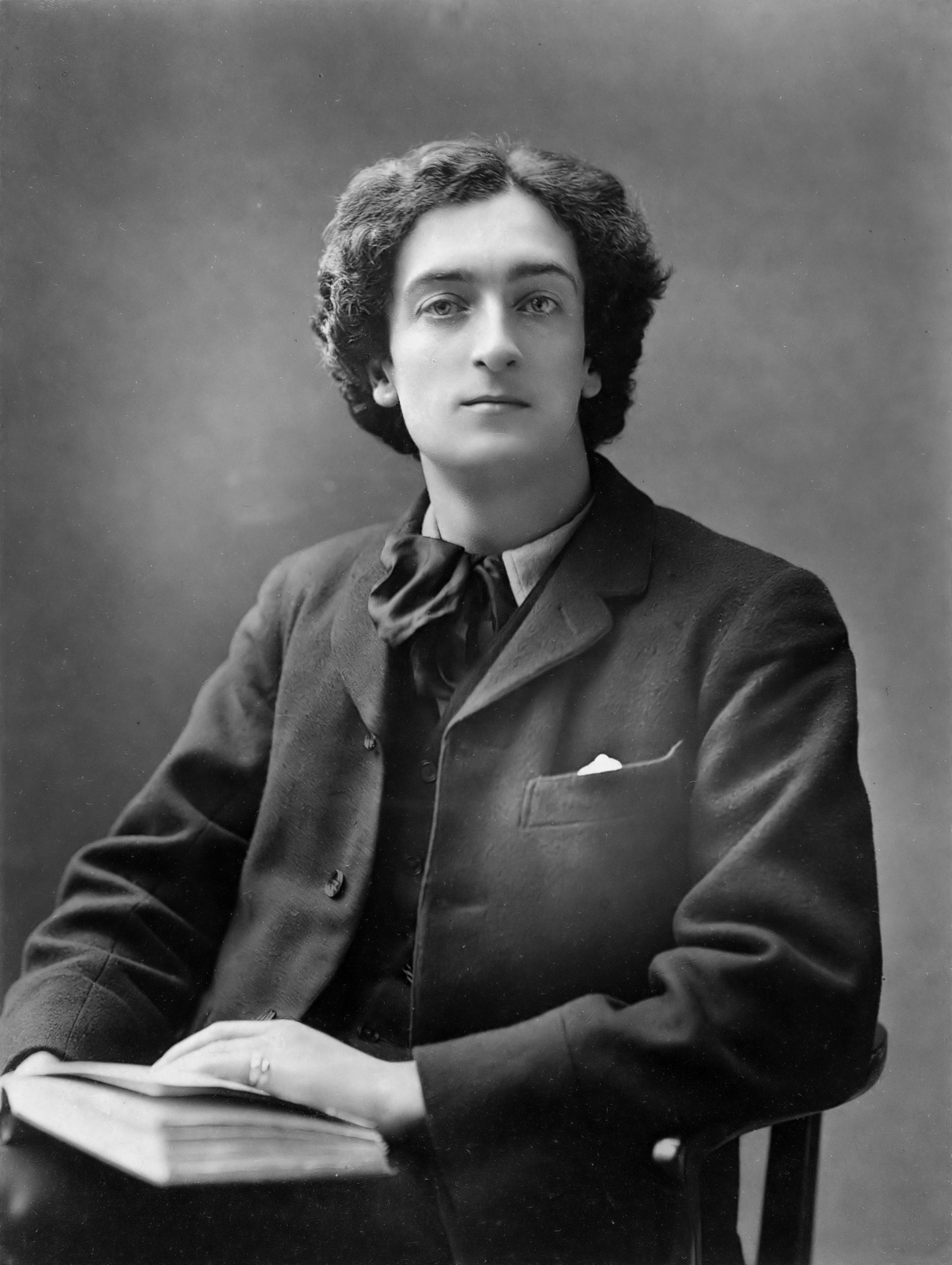 Richard Le Gallienne woodburytype 31 x 22 cm